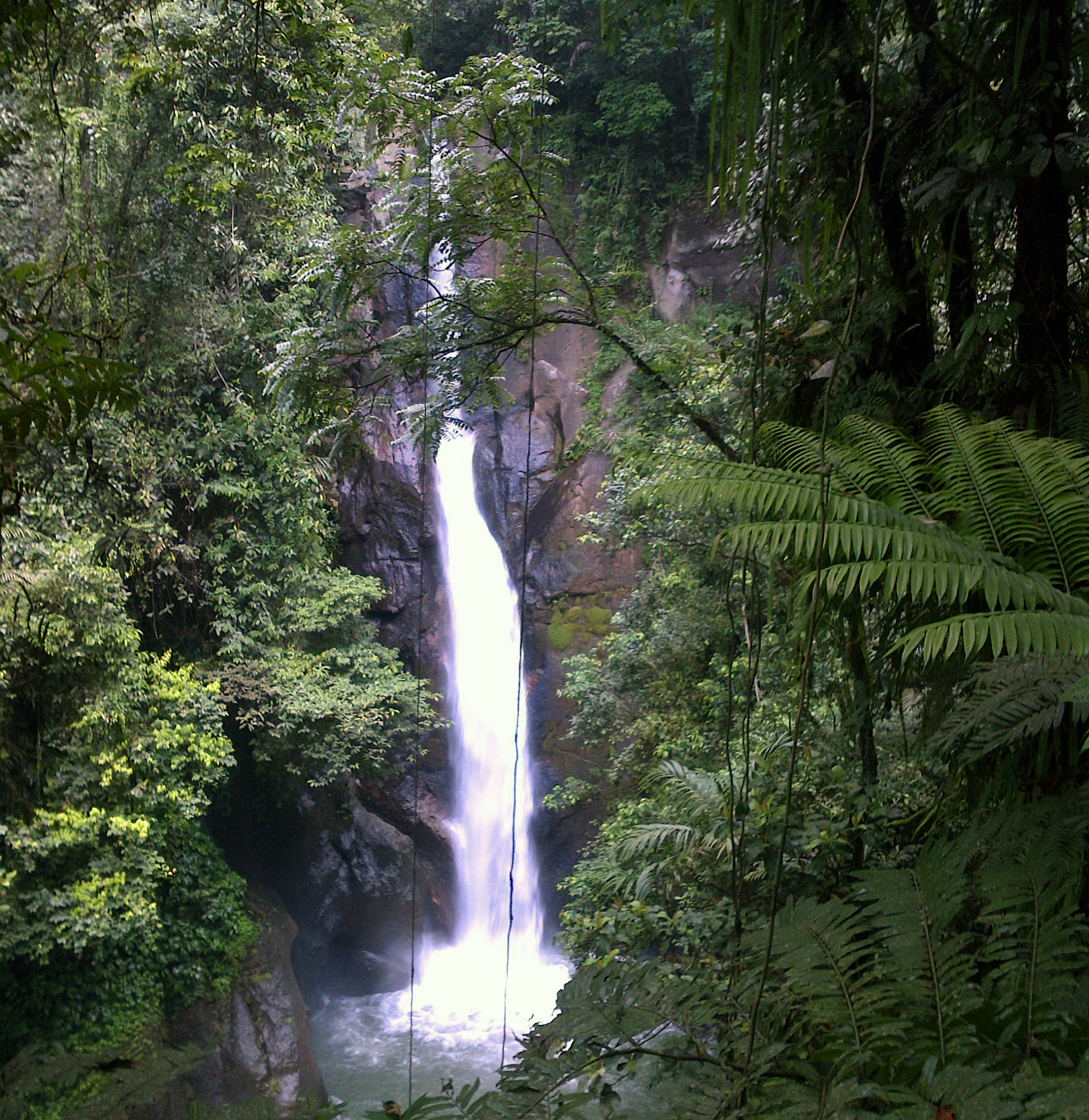 Dinamakan curug pi'it (+40 m) itu karena disekitar curug banyak dihuni burung pipit sumber poto : Ade Zaenal Mutaqin, 0251-969-2000 / 0821-1005-7000